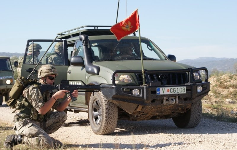 Army of Montenegro Military vehicle with license plate